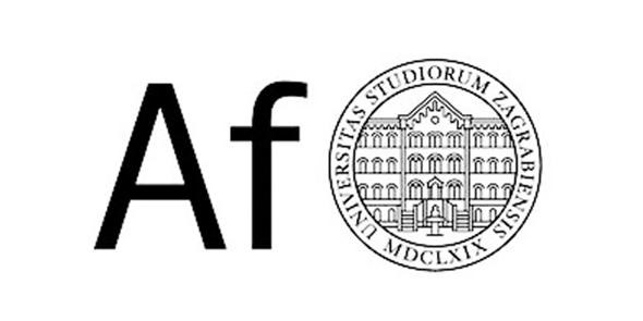 Faculty of Architecture, University of Zagreb logo.